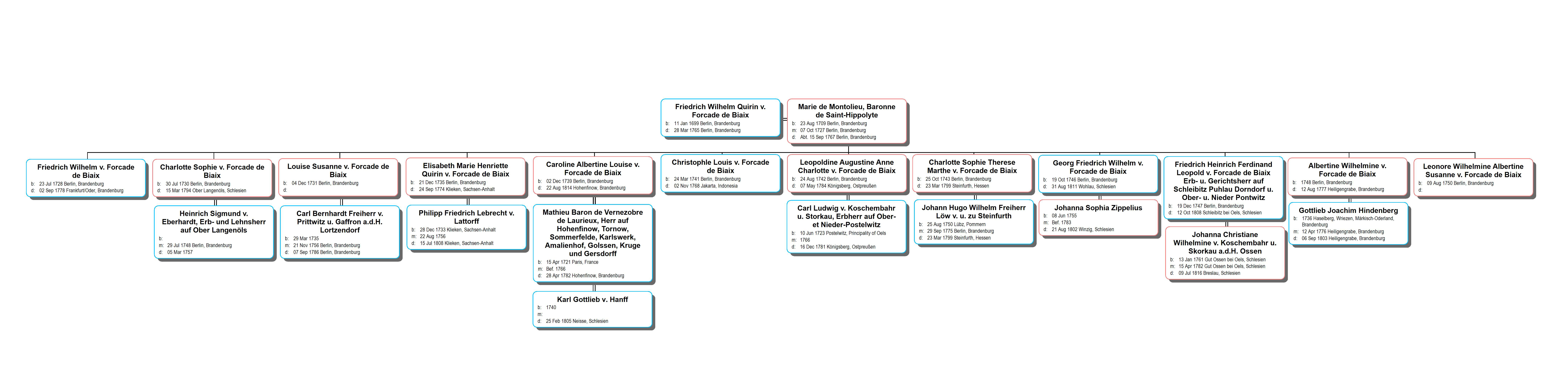 Children surviving into adulthood with their respective spouses.